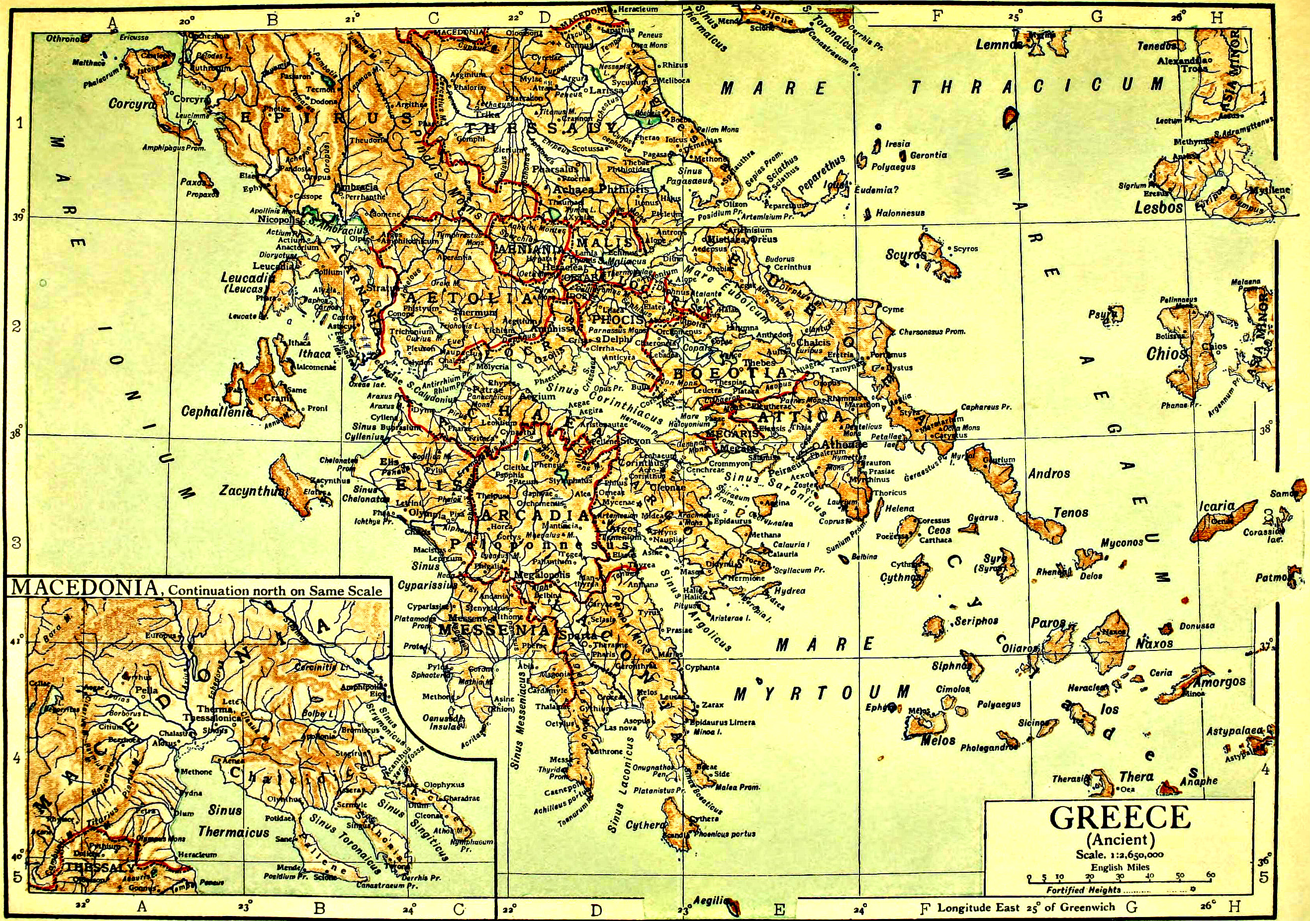 Map of ancient Greece.